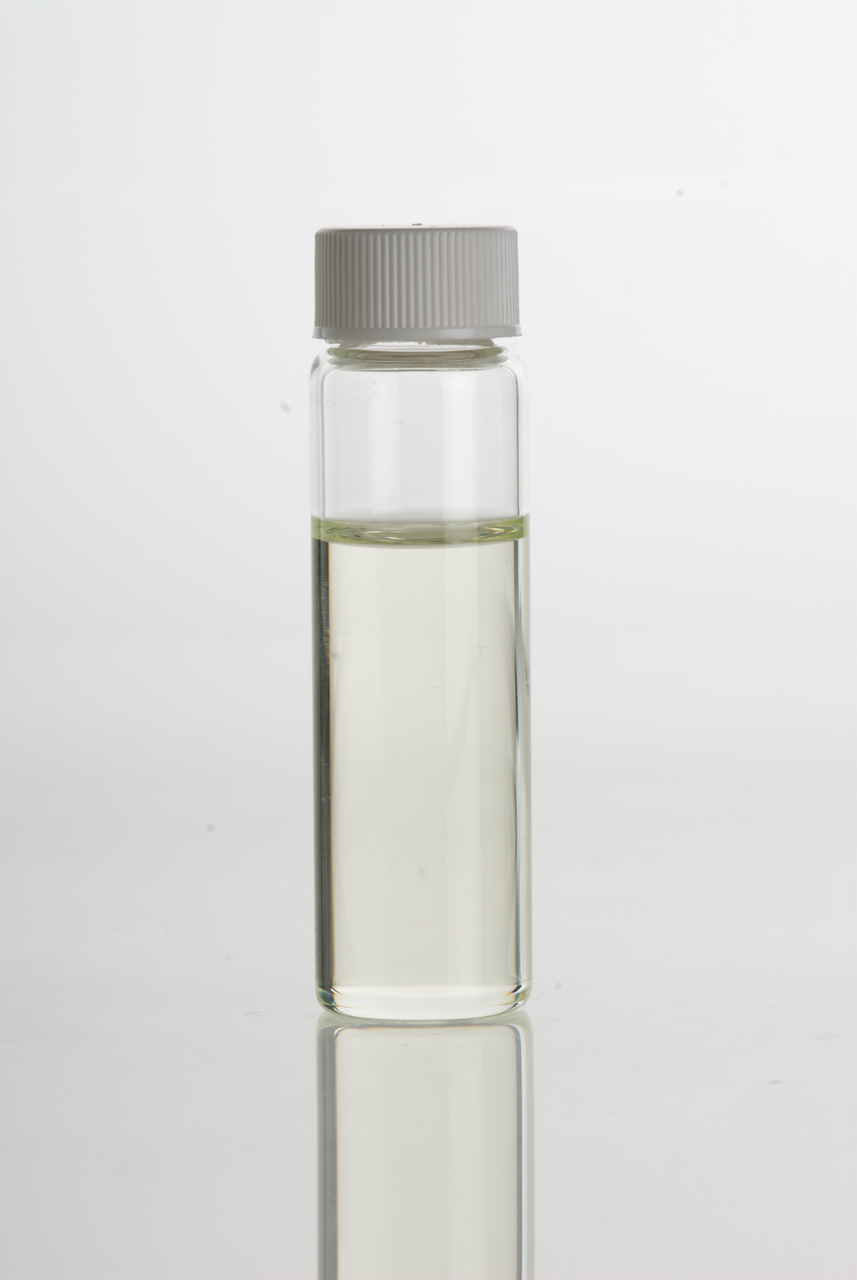 Basil (Ocimum basilicum) Essential Oil in clear glass vial